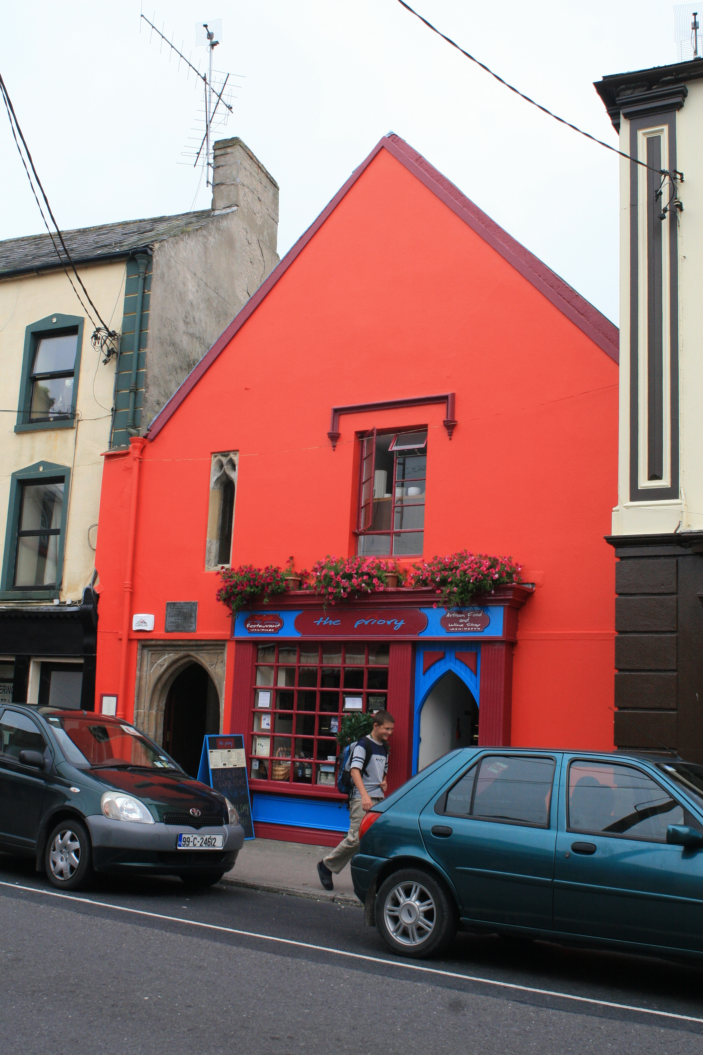 Youghal, County Cork, Ireland Front of St. John's Priory, a Benedictine hospitium or Maison Dieu, fd. in 1185. The arced doorway at the left is from c. 1350. This building is used nowadays as a shop and a restaurant.